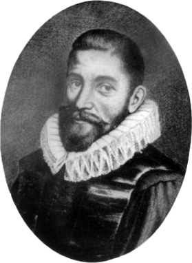 Willebrord Snell